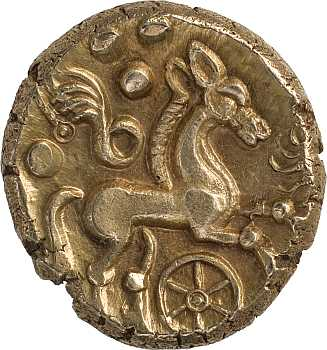 Celts, Britain, Stater Gold, Hors, 1. cent. AD